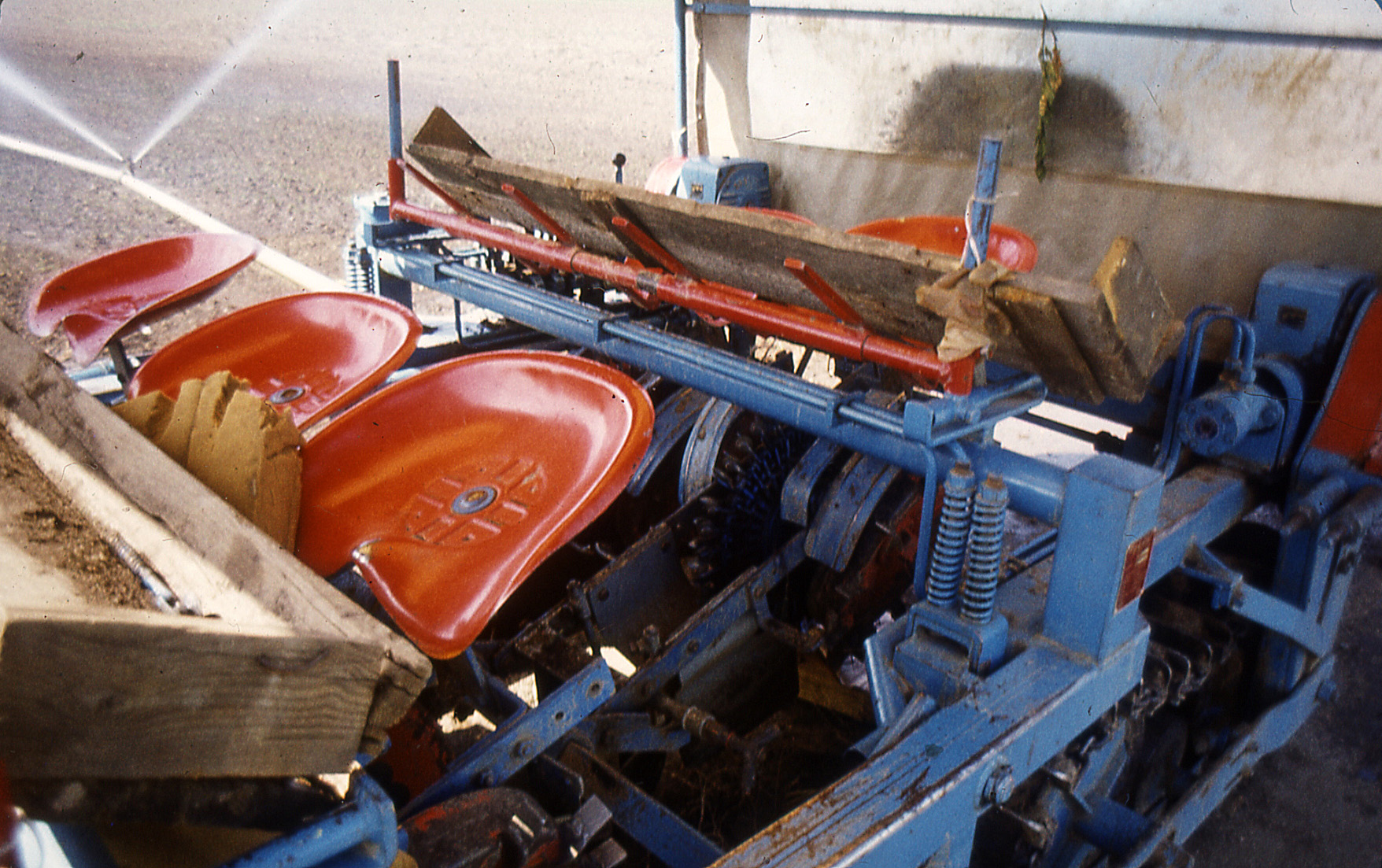 Transplanter Super-prefer